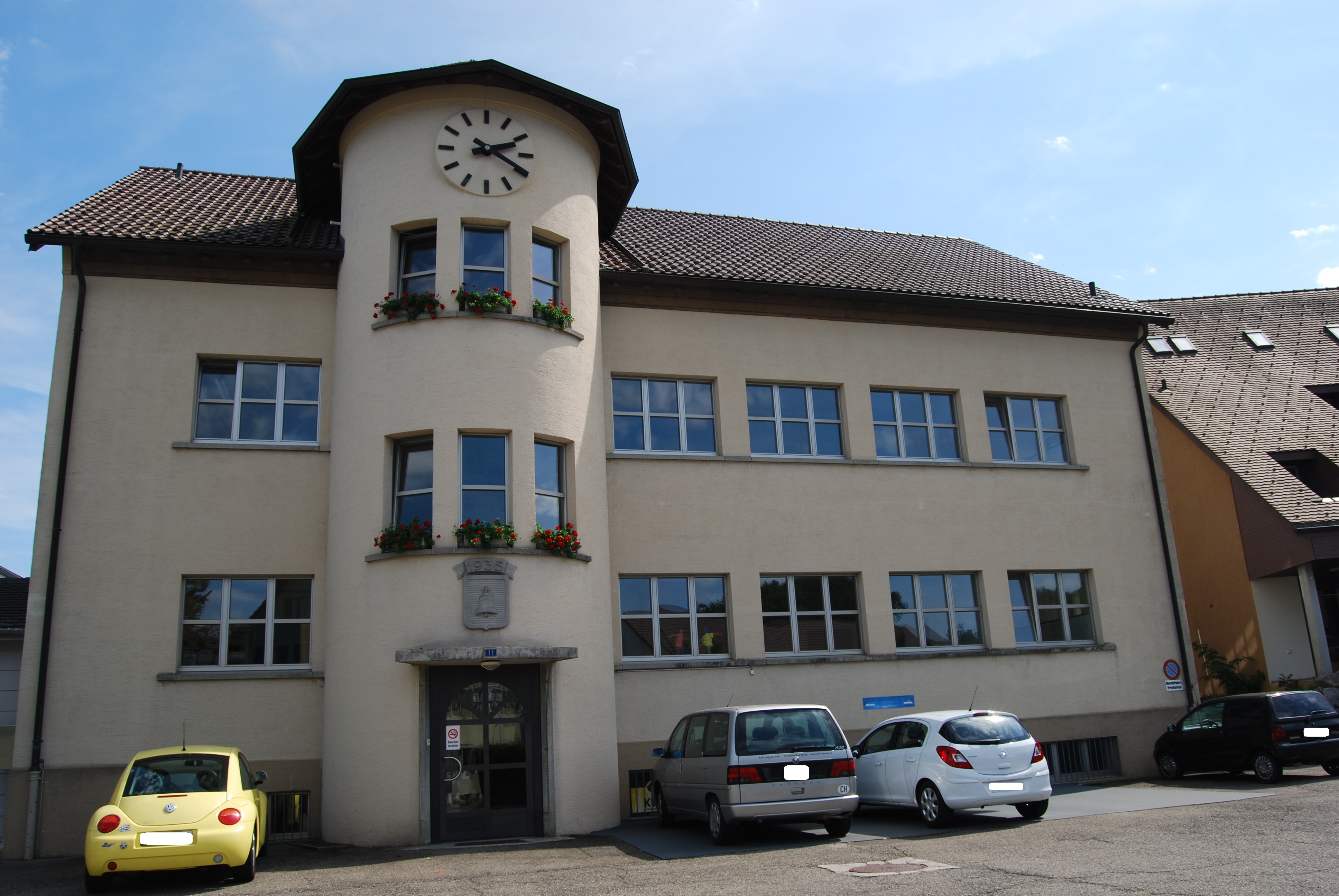 Leutwil, canton of Aargau, SwitzerlandEsperanto: Leutwil, Kantono Argovio, Svislando